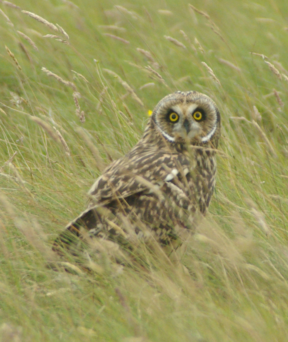 Short-eared Owl Asio flammeus, Eilean Siar, North Uist, Scotland.